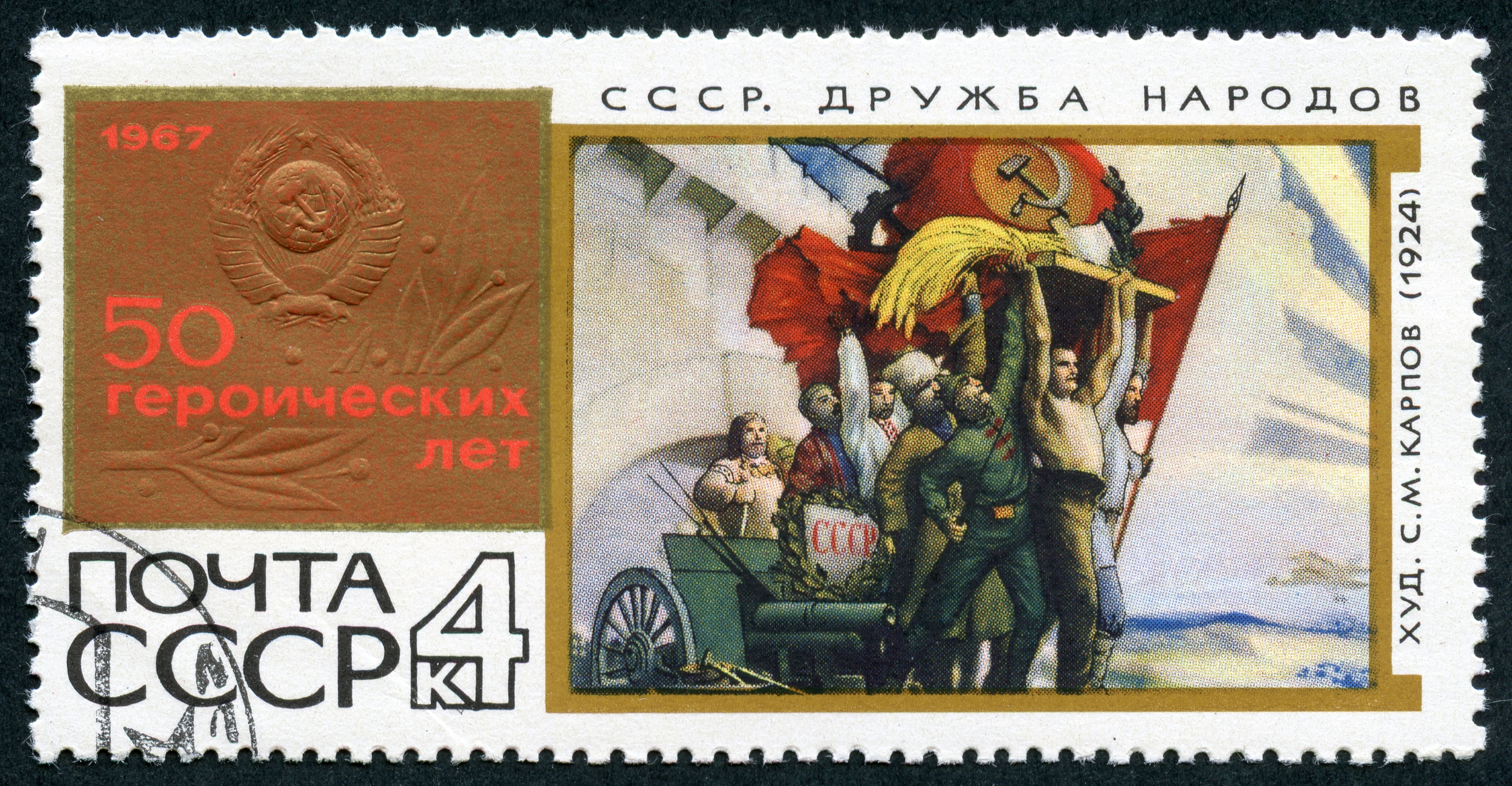 A USSR stamp